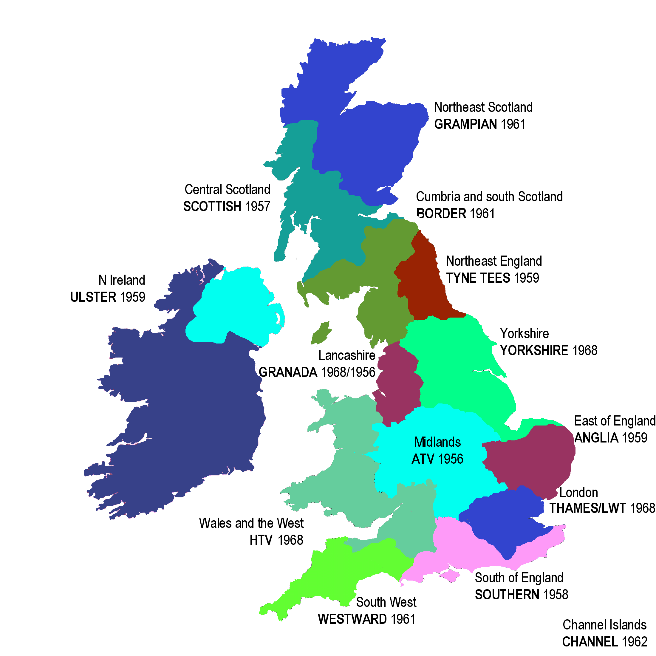 A map of the UK Independent Television (ITV) regions from the transmitter reallocation of 1974 until the major changes in 1982. Regions shown are approximate. Overlaps between regions, especially on VHF, were extensive. Boundaries follow, roughly, the areas where the majority of viewers were watching an overlap region, except in cases where a natural boundary (national borders, mountain chains) provide a more sensible break. Overlaps are therefore not shown.